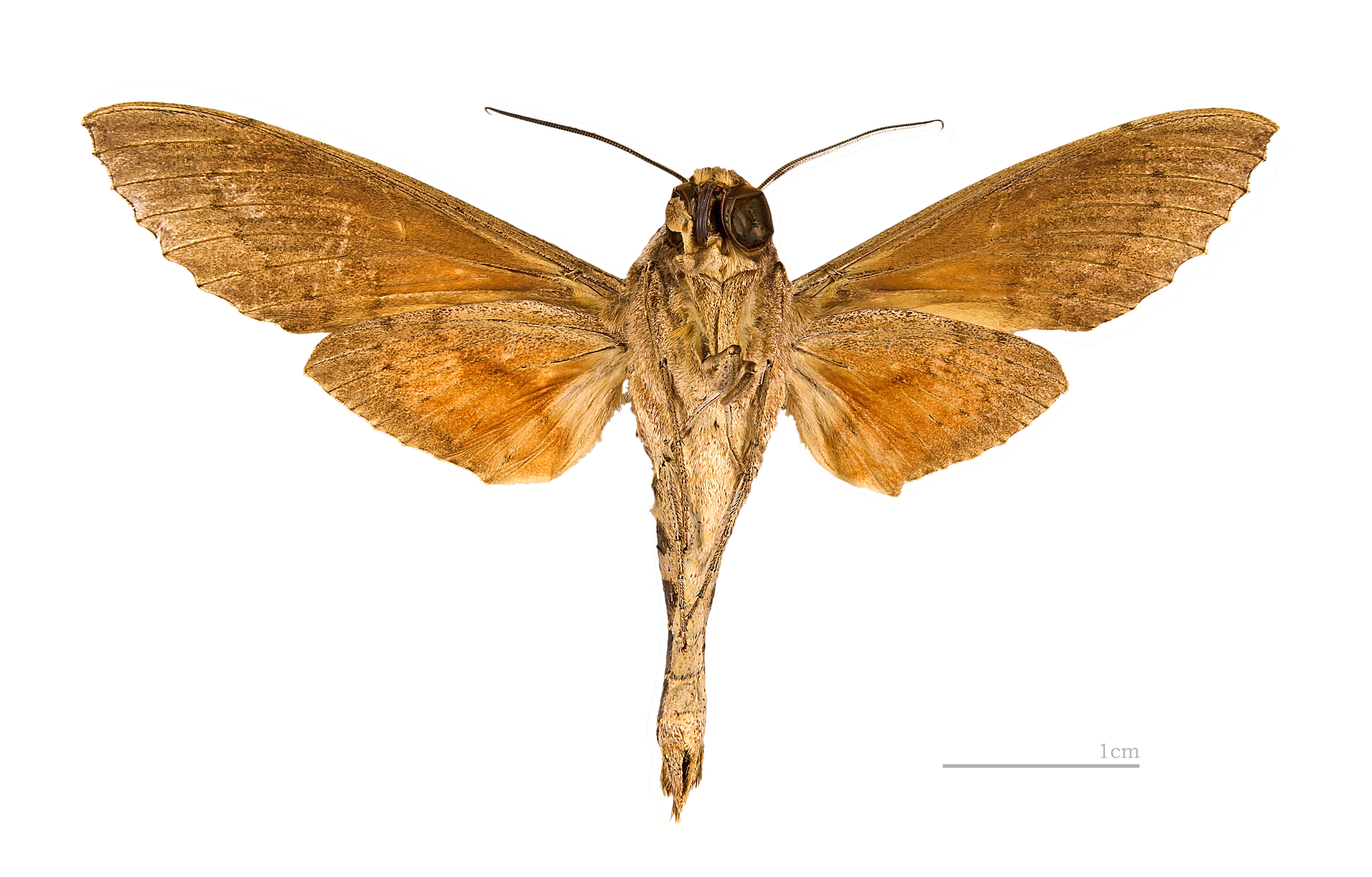 Erinnyis ello - △ Ventral side